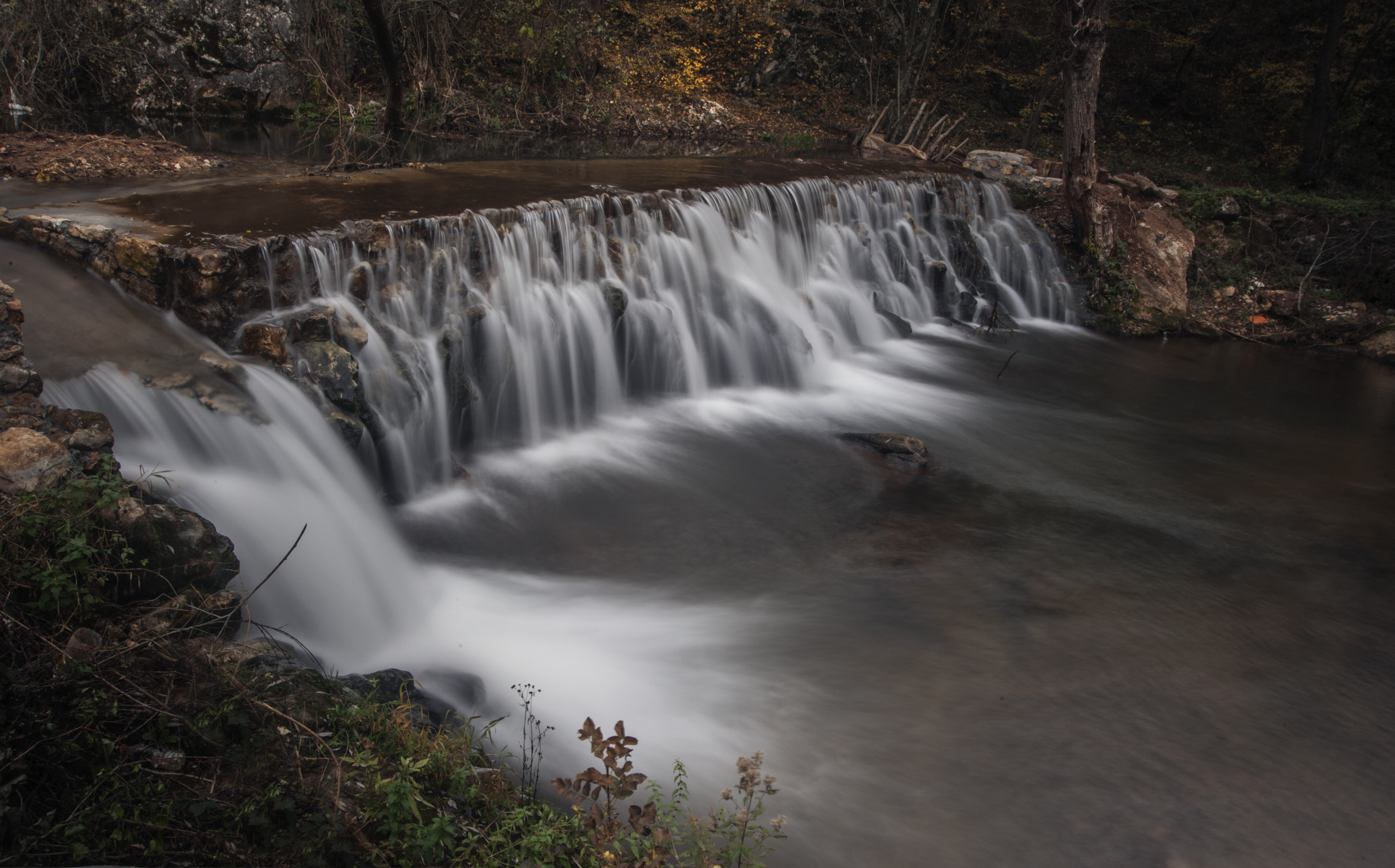 Ово је фотографија заштићеног природног добра у Србији под шифром: ПП18This is a a photo of a natural area in Serbia with ID: ПП18